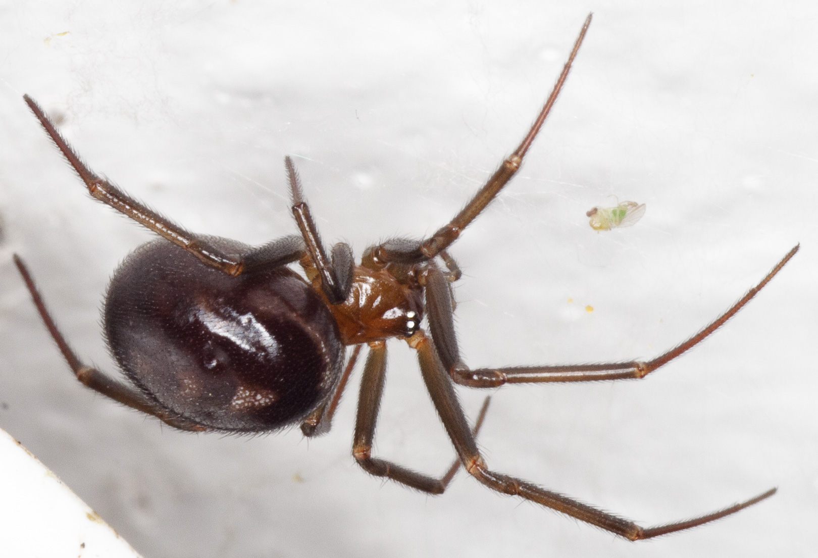 Female spider Steatoda grossa, on a ceiling by the cover of the lamp wires (its hiding place). Warsaw, Poland.